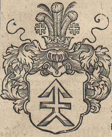 Kościesza - coat of arms of Pudlowski family – augmentation granted by Polish king Stephen Báthory in Pskov in 1582. Source: Bartłomiej Paprocki, Herby rycerztwa polskiego : na pięcioro xiąg rozdzielone, Kraków 1584.